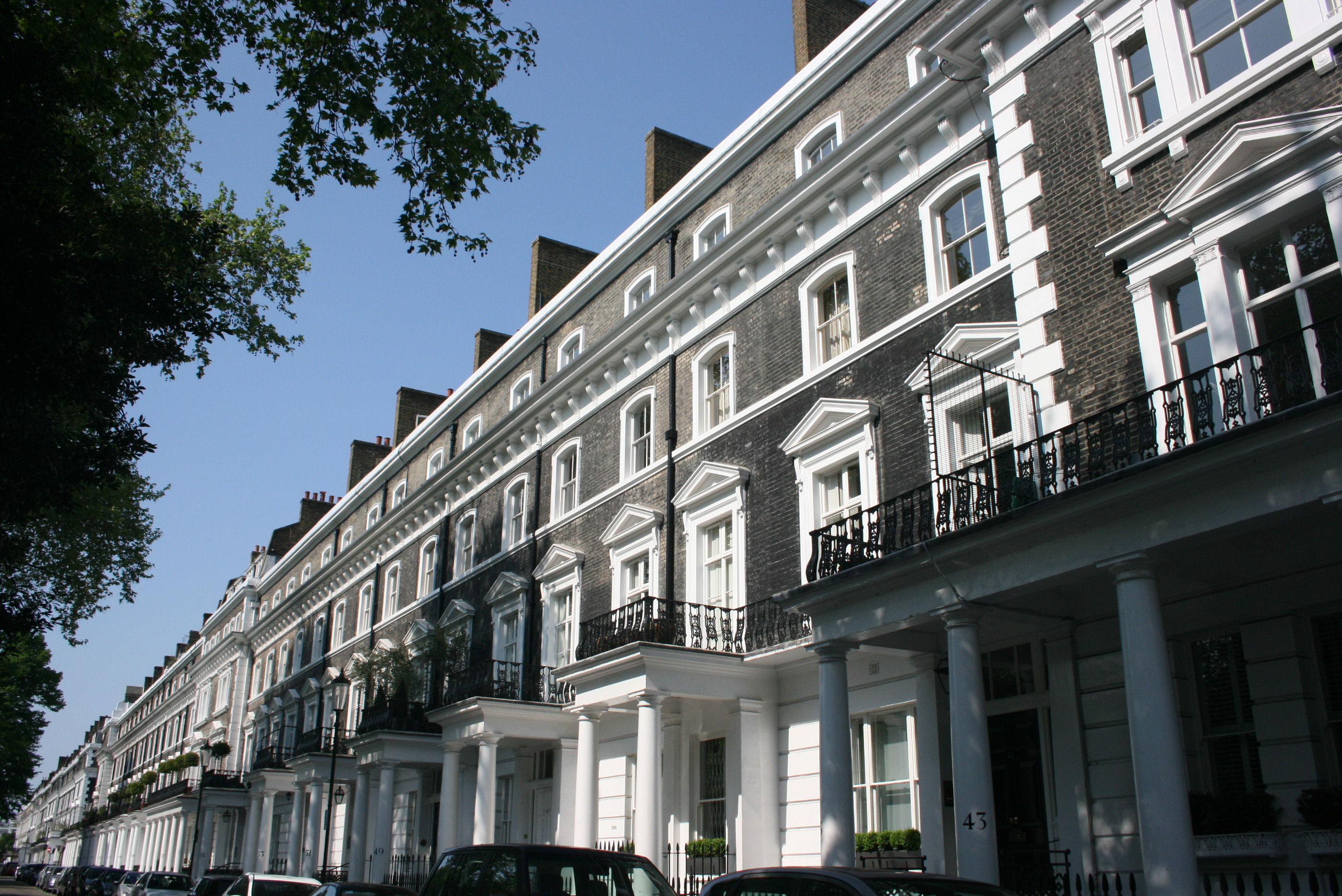 Row of Knightsbridge Georgian houses